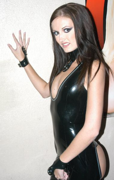 Hailey Young at Adam and Eve party for movie O: The Power of Submission, September 14 2006